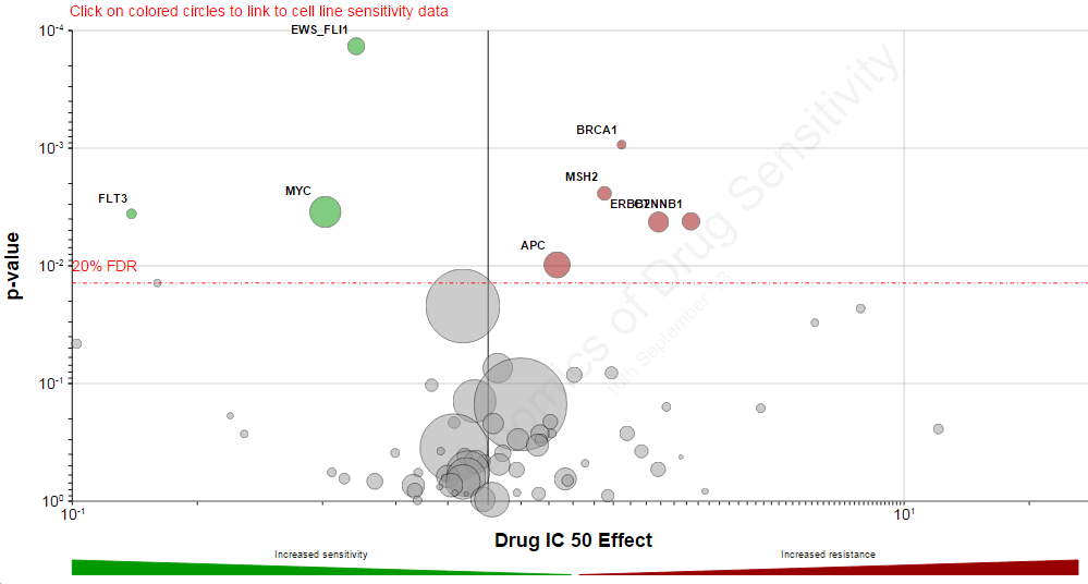 Volcano_plot_